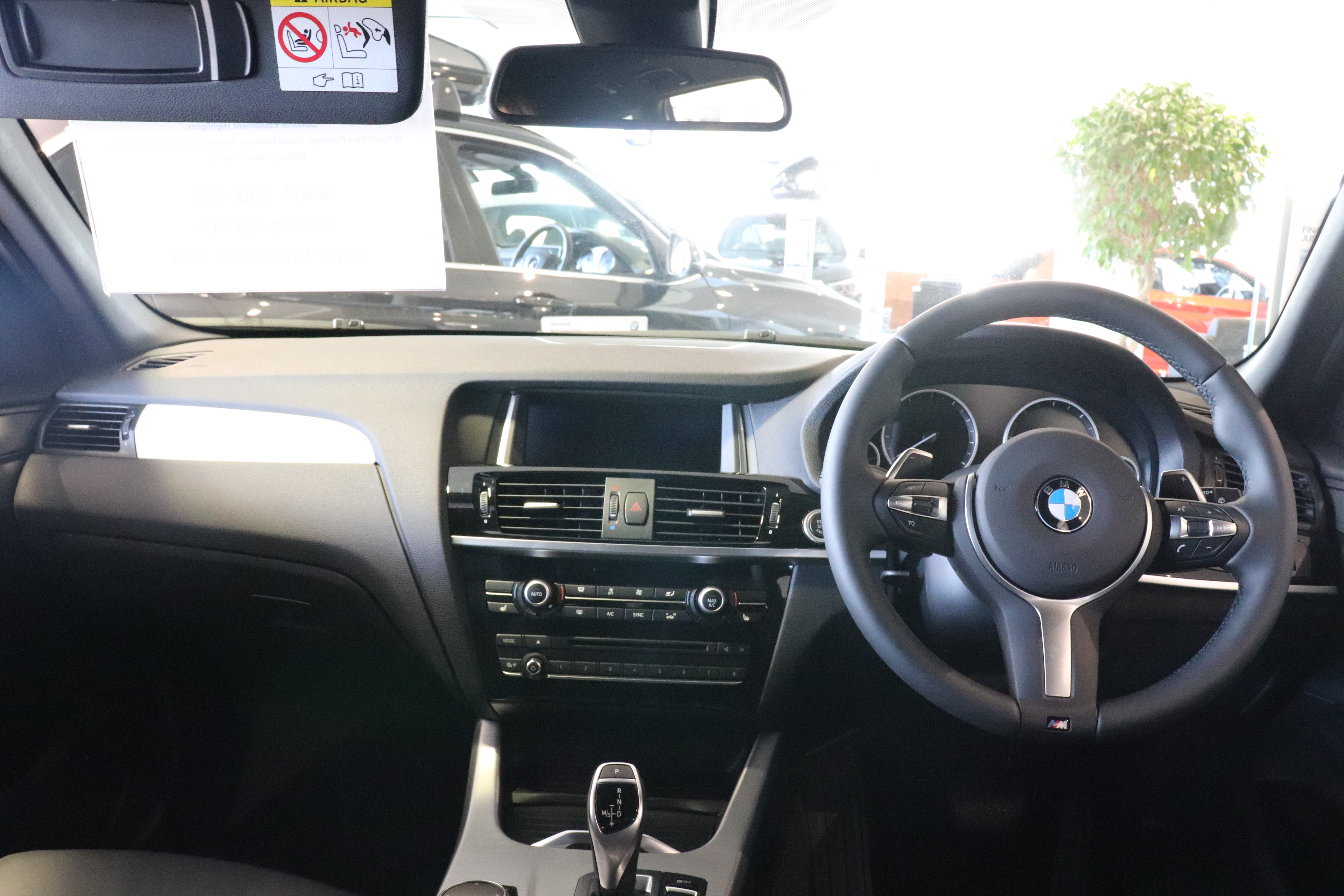 2017 BMW X3 xDrive35d M Sport Automatic Interior Taken in Leamington Spa